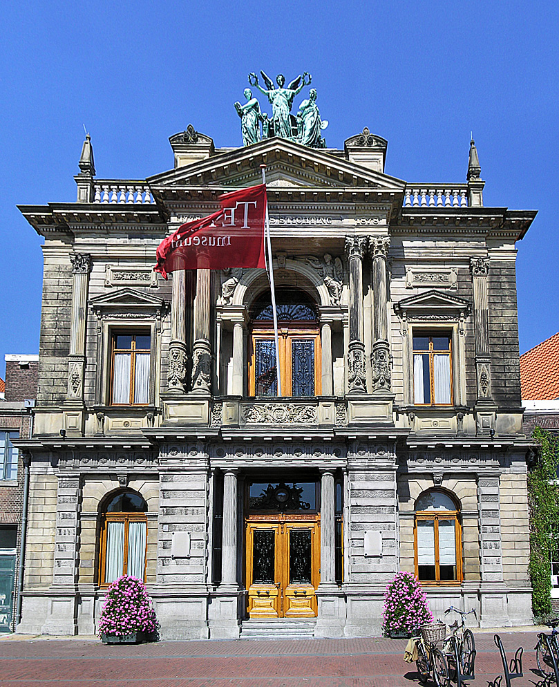 Teylers Museum, Haarlem, Netherlands